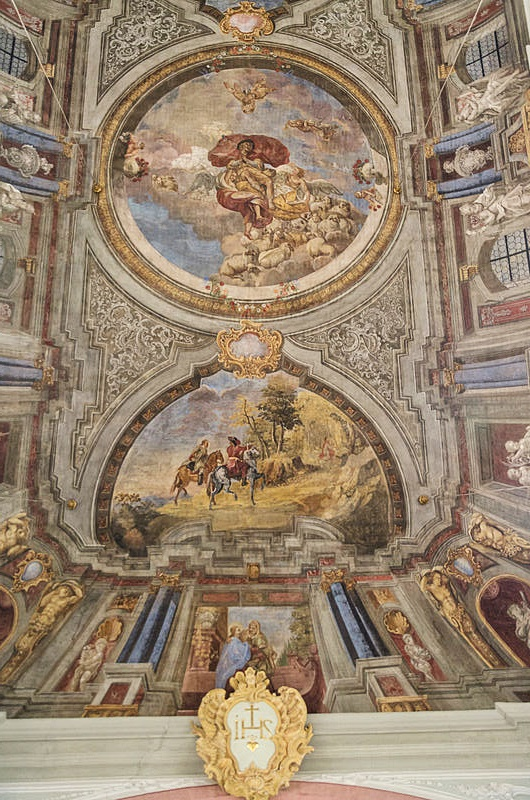 Johann Conrad Bechtold (1698-1786), Deckengemälde in der Pfarrkirche St. Johannes der Täufer, Mönchberg